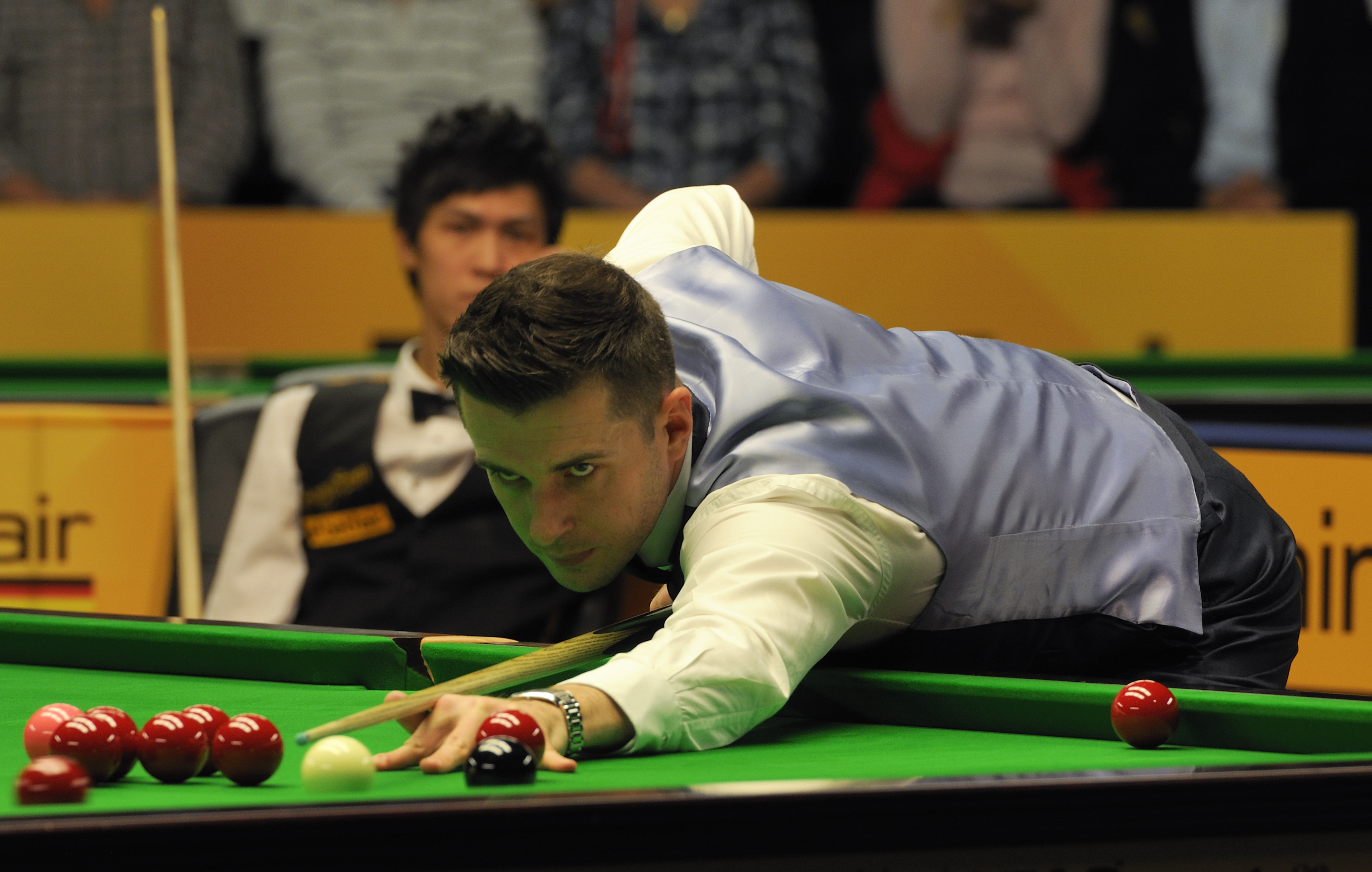 Picture taken in Berlin during the Snooker German Masters in 2013. Mark Selby, Thepchaiya Un-Nooh.